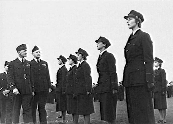 Victoria. Air Vice Marshal H. N. Wrigley CBE DFC AFC, Air Member for Personnel, RAAF, inspecting a passing out parade of graduates of the RAAF and Women's Auxiliary Australian Air Force (WAAAF) University School Of Administration.